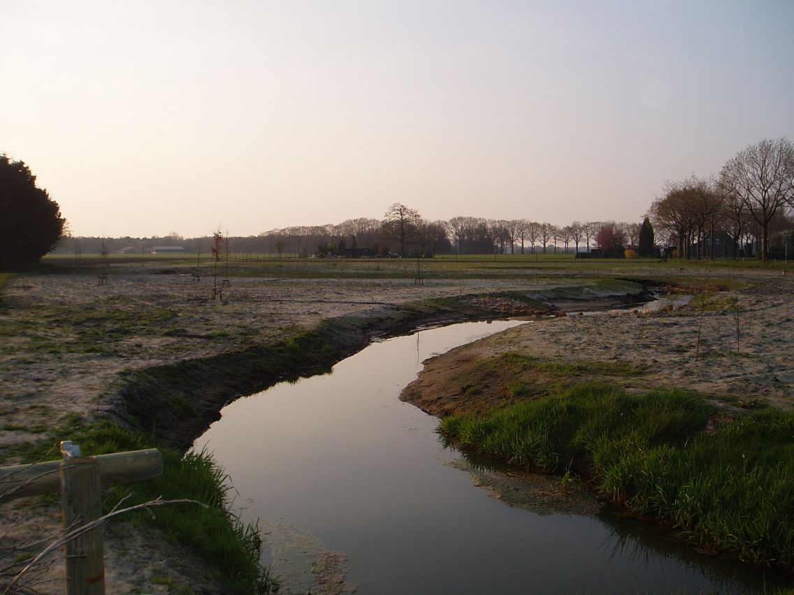 Raamloop River in North-Brabant (Hulsel)